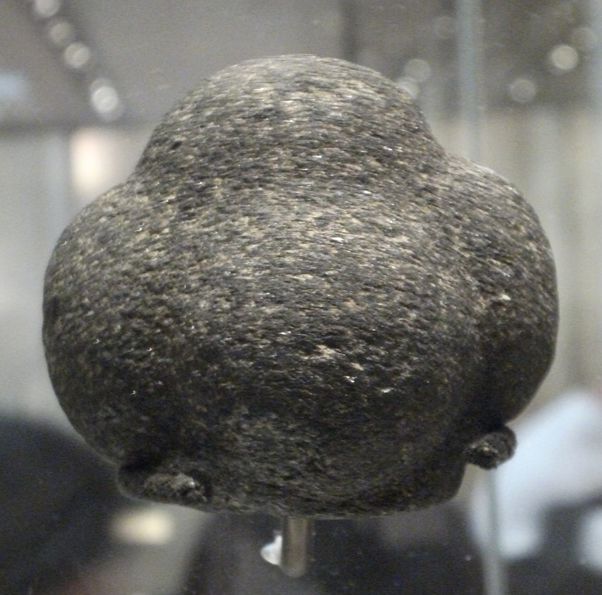 Stone ball, Neolithic